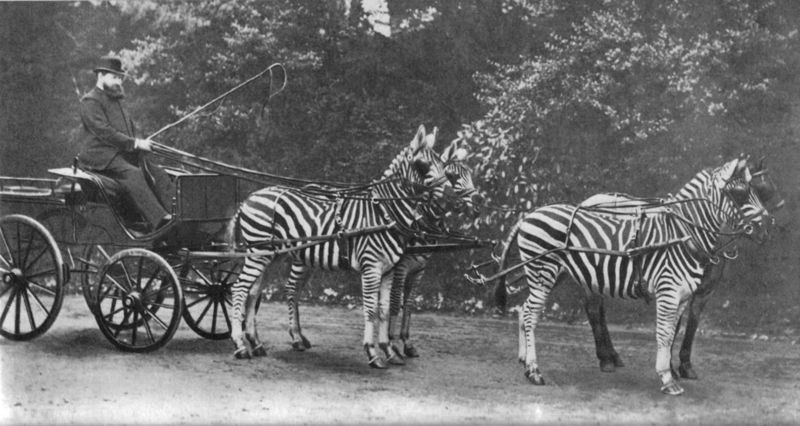 Lionel Walter Rothschild (1868-1937), 2nd Baron Rothschild, with his famed zebra (Equus burchelli) carriage, which he frequently drove through London.